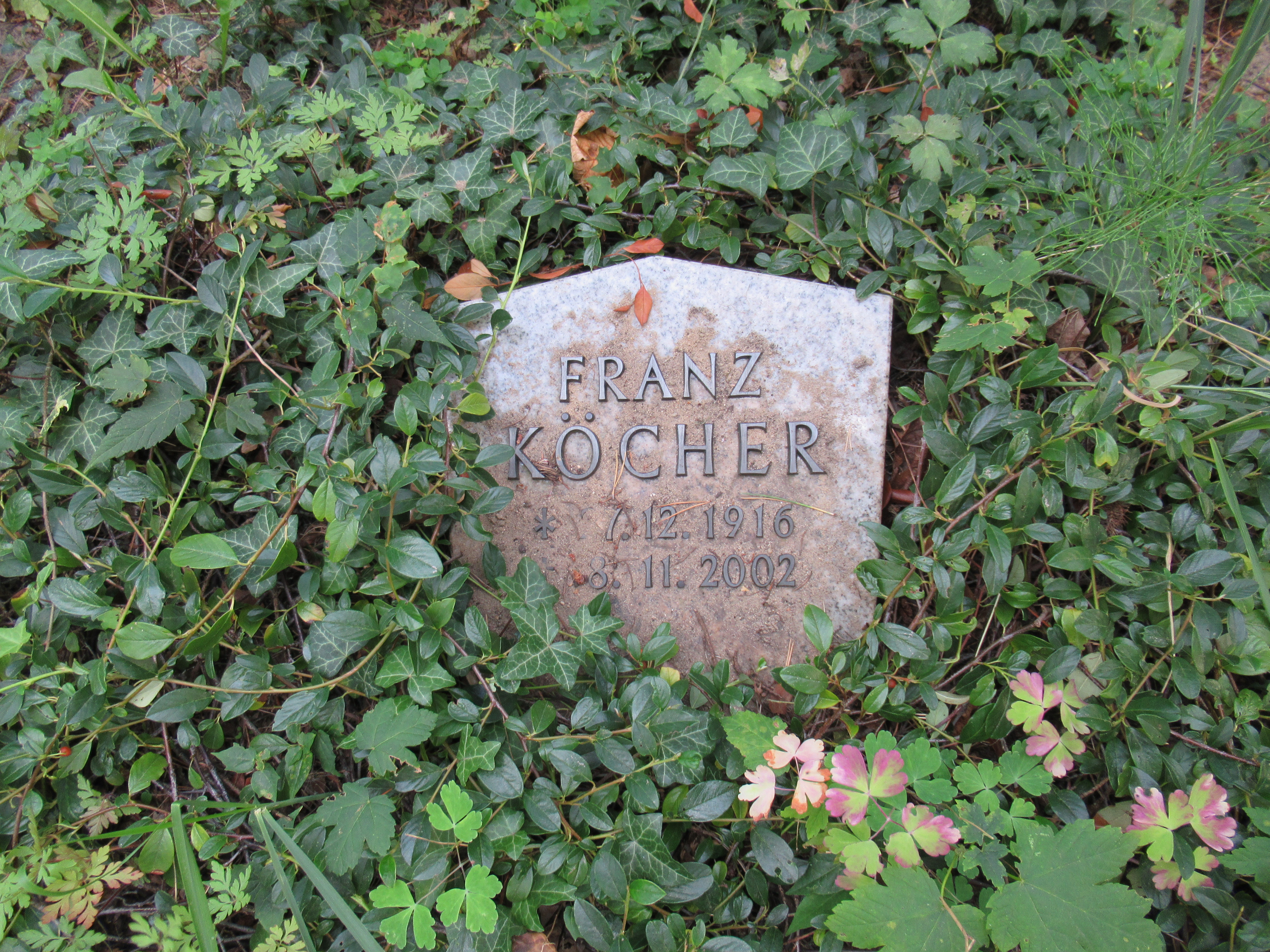 Grave of Franz Köcher at Friedhof Heerstraße in Berlin-Westend